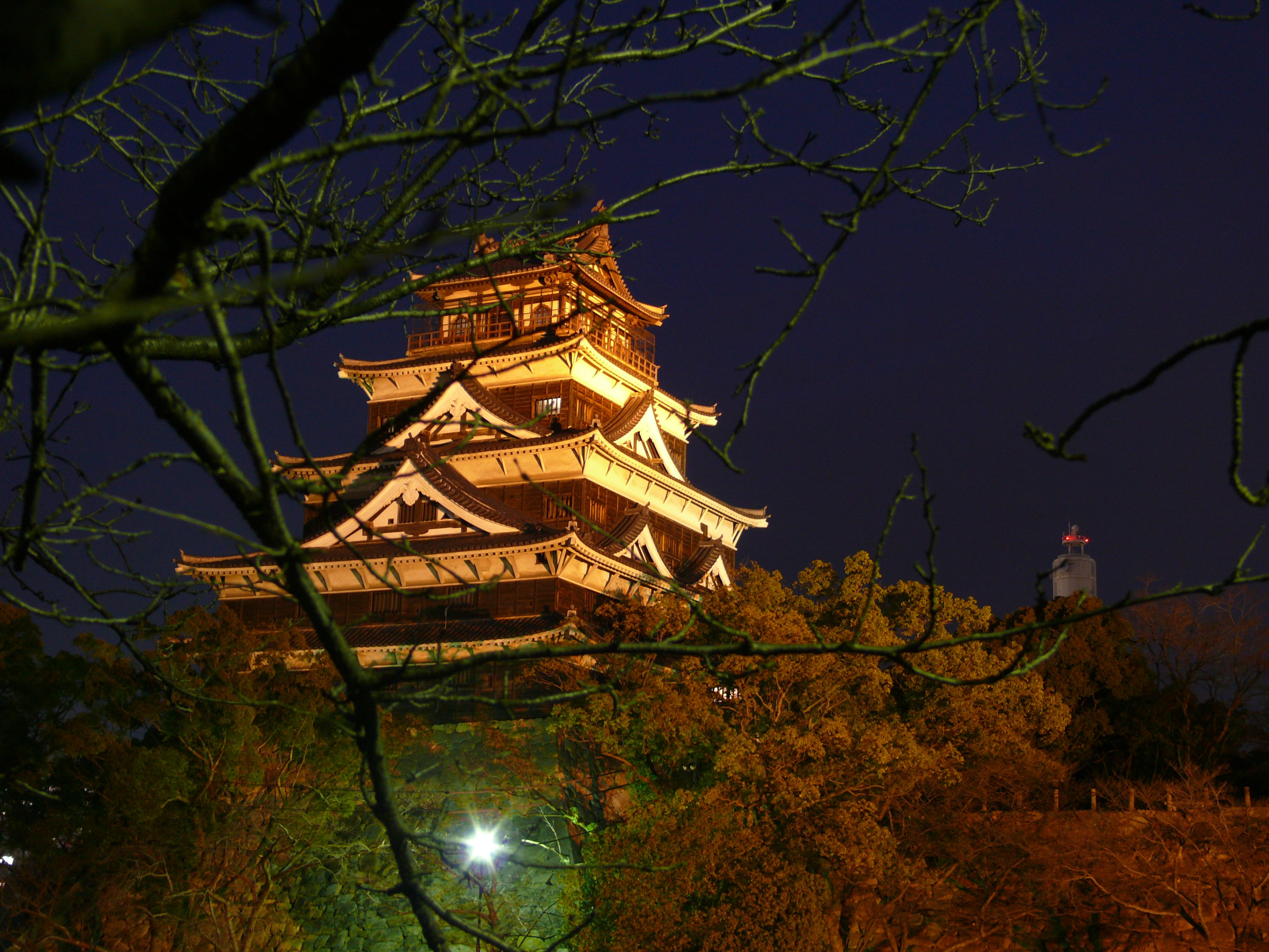 Hiroshima Castle by night (9pm)